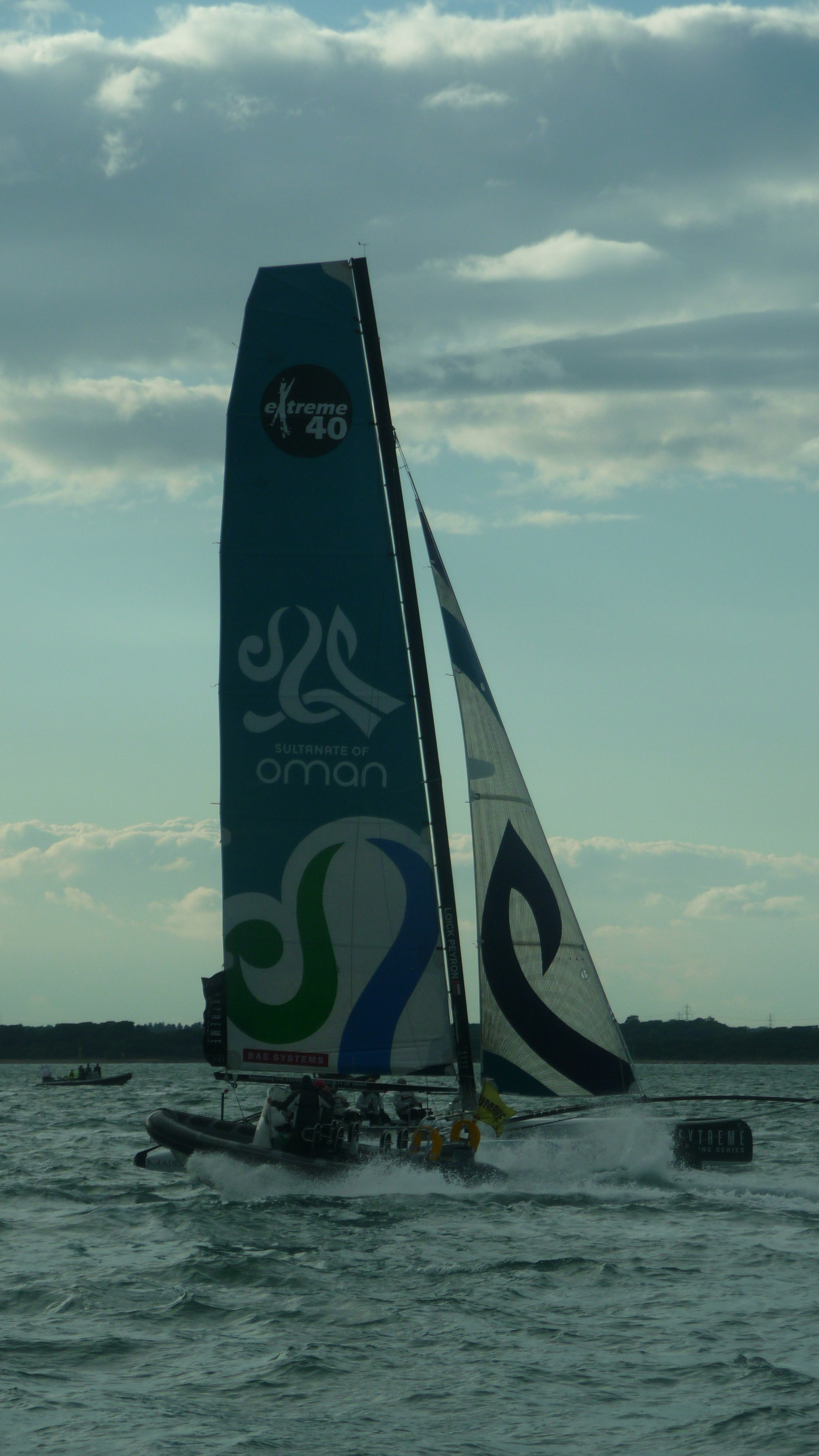 Extreme 40 class sailing catamarans, seen racing off Egypt Point, Cowes, Isle of Wight, during Cowes Week in 2010. Cowes was a stage on the Extreme 40 races for 2010. There was a race nearly every day during Cowes Week, and races were run off Egypt Point (by the Extreme 40 tent), and were separate from the standard Cowes Week races (that start from the Royal Yacht Squadron). This is the Sultanate of Oman team boat.